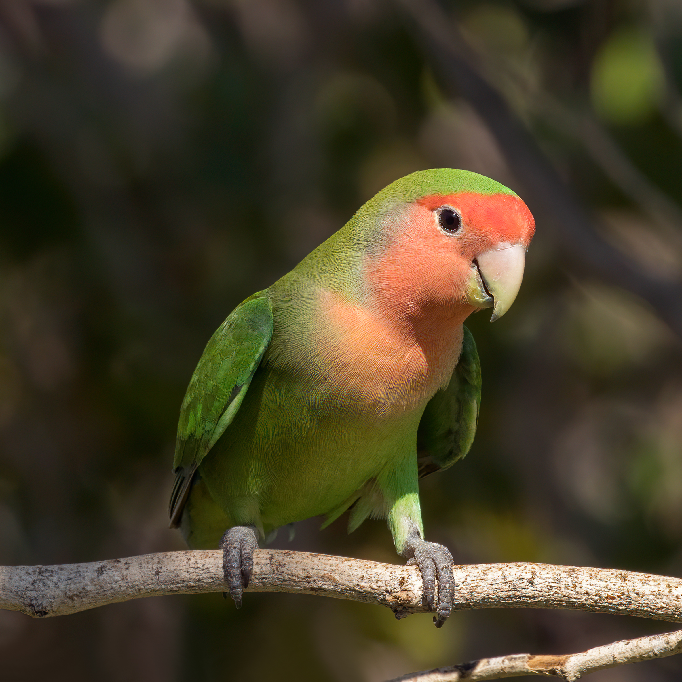 Rosy-faced lovebird (Agapornis roseicollis roseicollis), Erongo, Namibia